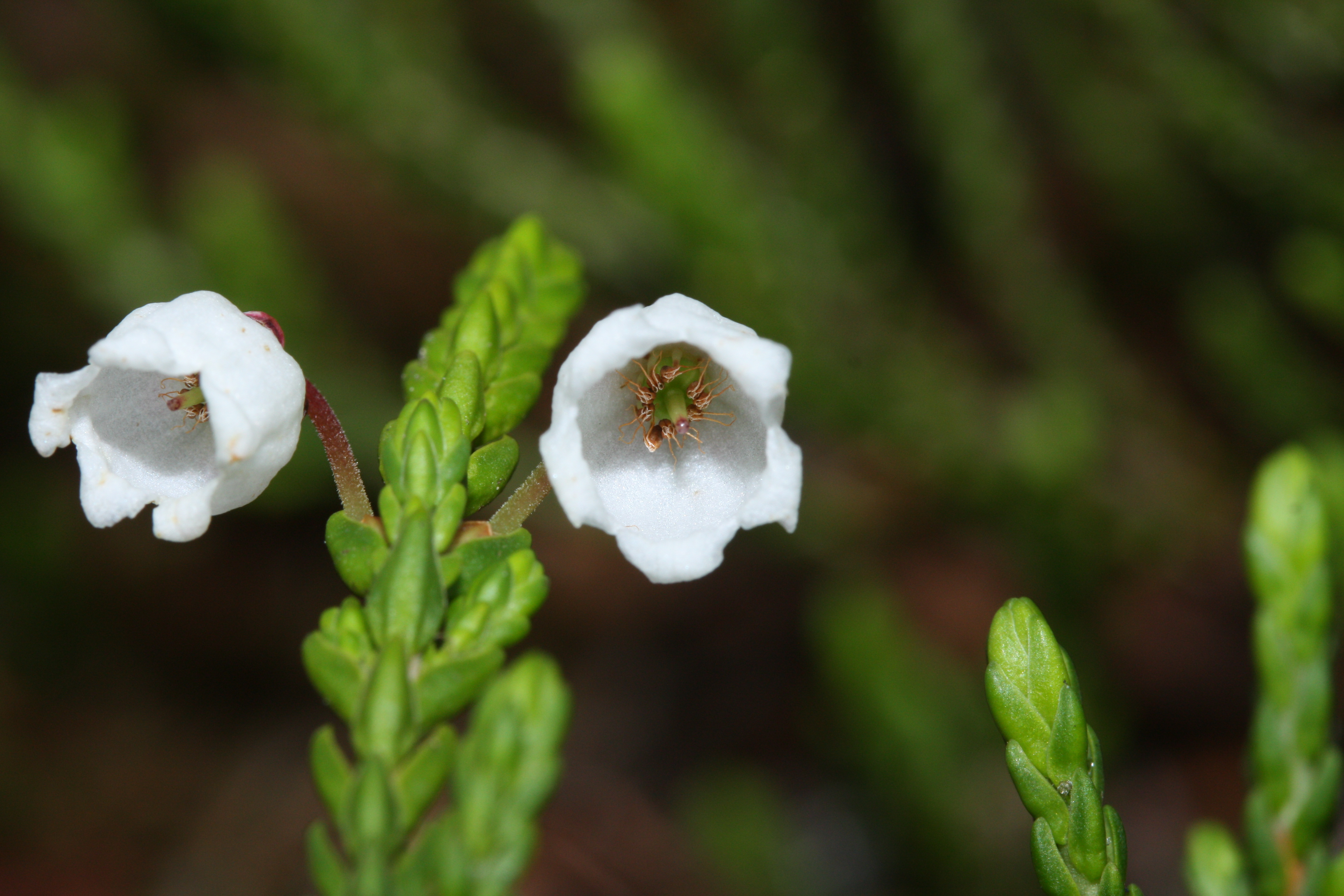 Western Moss Heather, Mertens' Mountain Heather